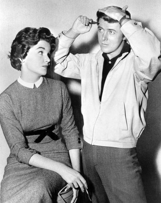 Photo of Edd Byrnes as Kookie and Sue Randall from the television program 77 Sunset Strip.